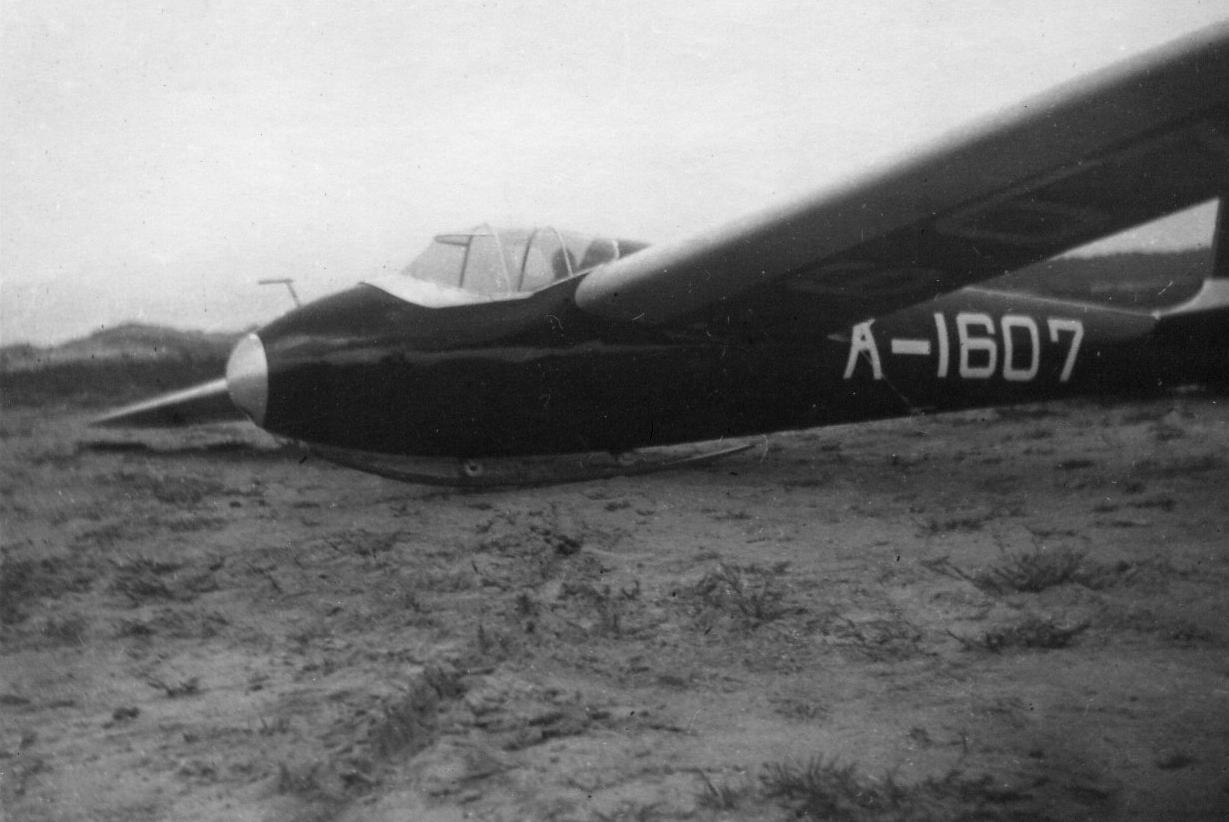 A-1607 Glider The third and last Maeda 703. It has straight wings whereas the earlier two prototypes had gull-wings. Ref:Simons, Sailplanes 1920-1945.